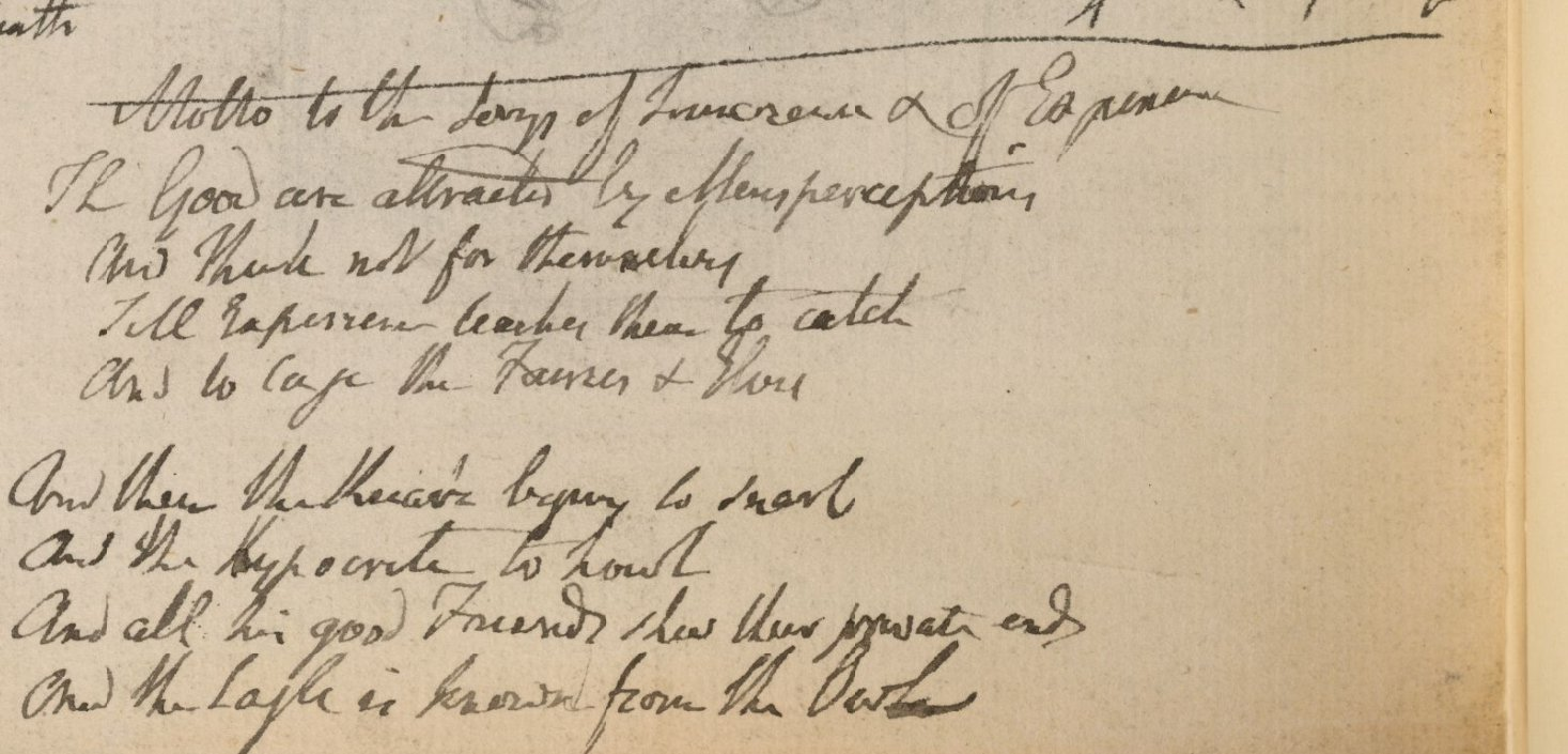 Blake manuscript - Notebook 56 - Motto to the Songs of Inn & of Exp